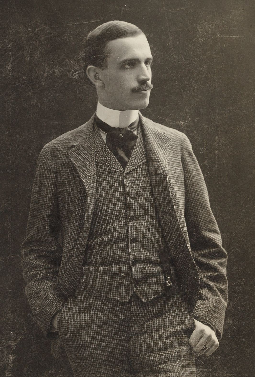 Cabinet card image of American playwright Sewell Collins (1876-1934). Undated, but presumably before 1923. TCS 1.5449, Harvard Theatre Collection, Harvard University